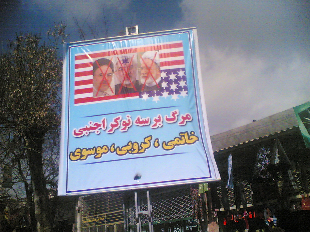 Anti-Mousavi banner